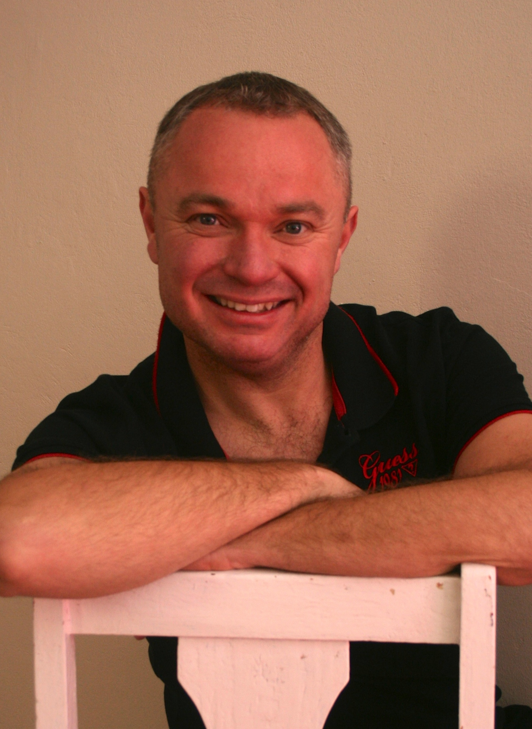 South African children's book author Jaco Jacobs.